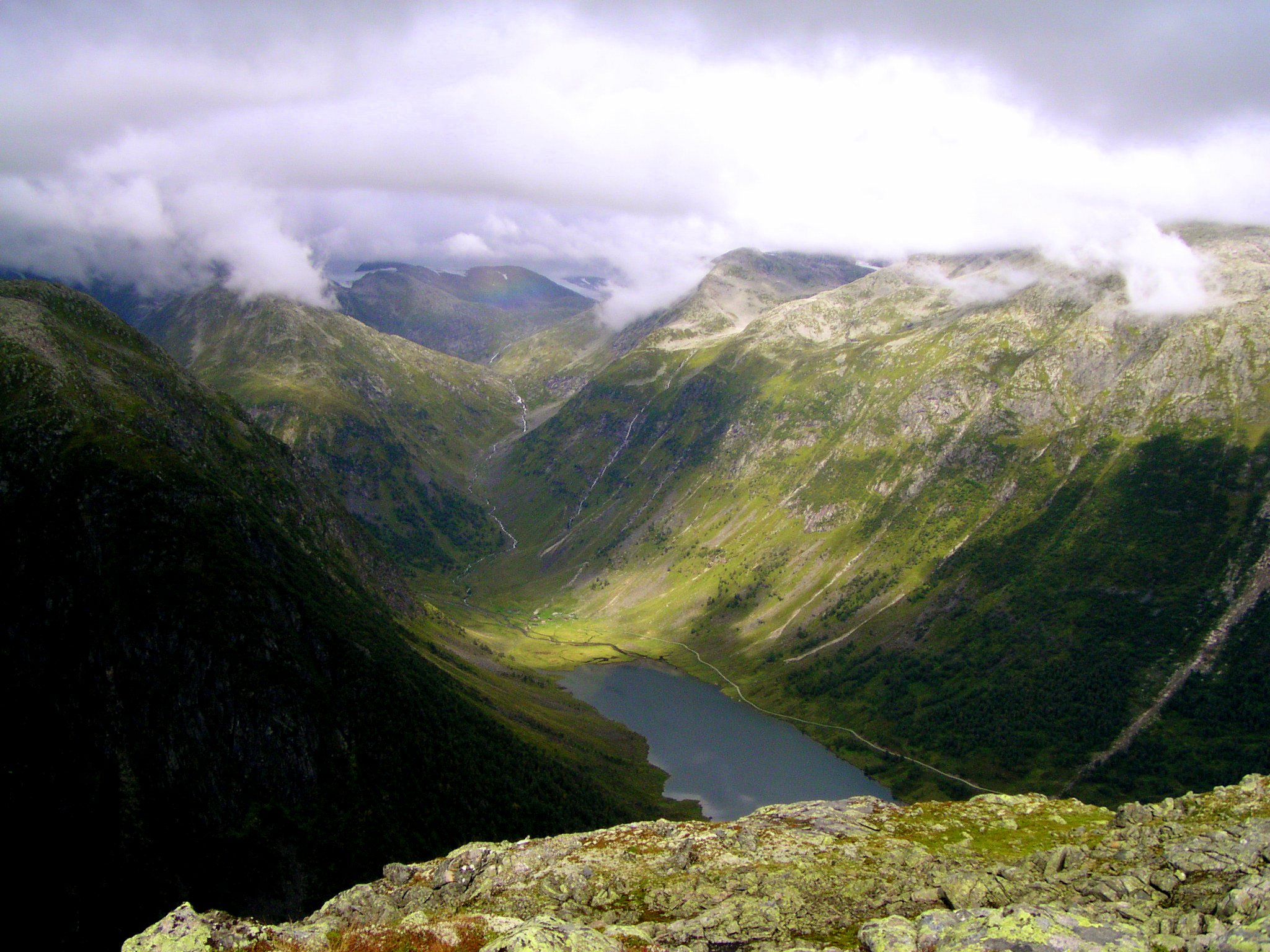 View from the Togga mountain to Anastølen, Sogndal, Norway.